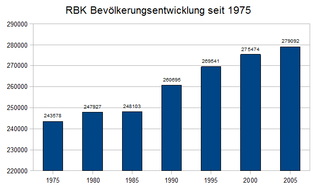 Inhabitants in the Rheinisch-Bergischer Kreis, a district in Germany, from 1975 to 2005.